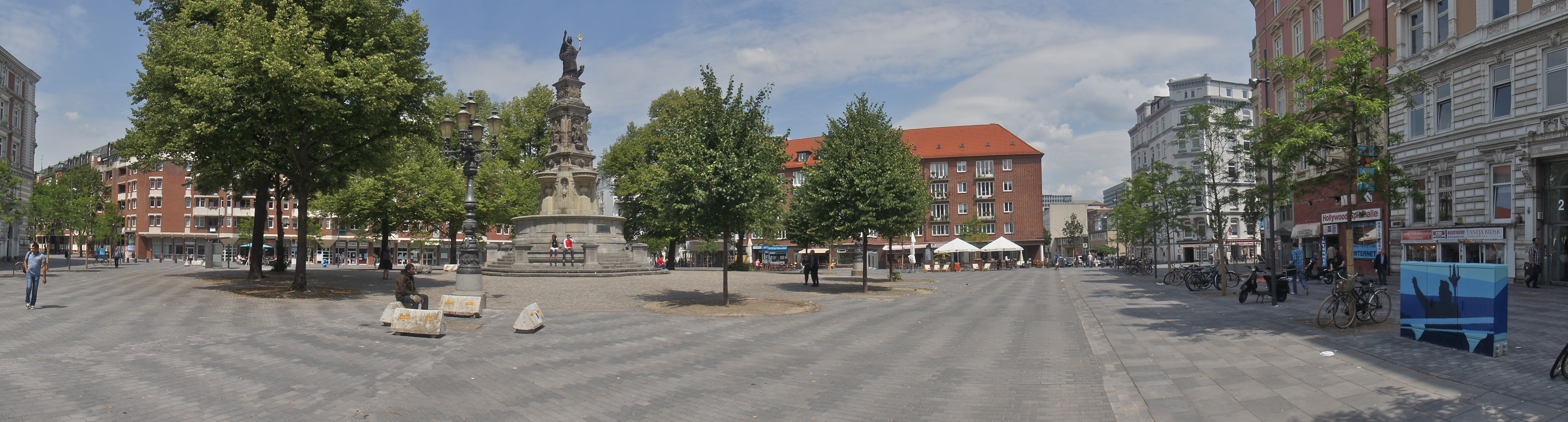 Hamburg (Sankt Georg (Hamburg)), Germany: Overview of the Hansaplatz